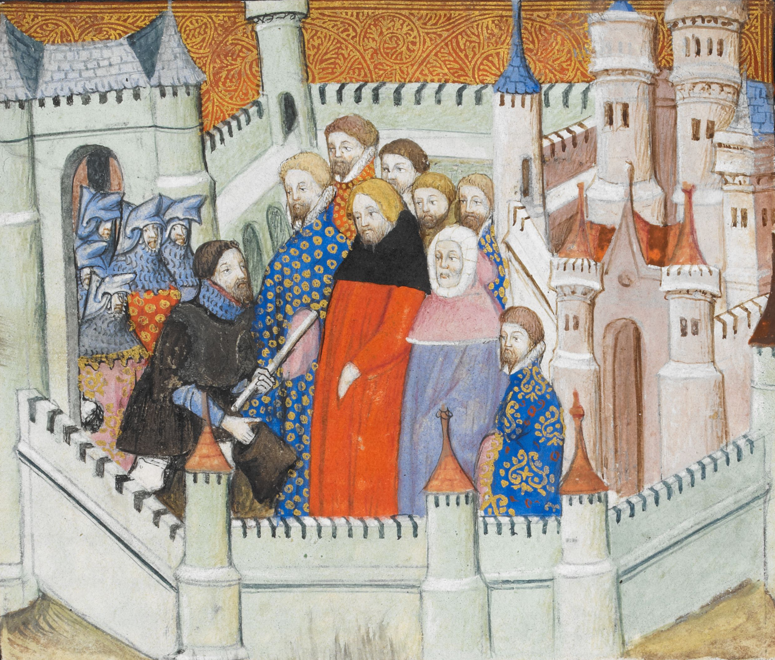 Henry Bolingbroke and Richard II at Flint Castle; page from illuminated manuscript of Jean Creton's La Prinse et Mort du roy Richart ("The Capture and Death of King Richard"), Harleian Collection, British Library, once in the collection of Jean de Valois, Duc de Berry